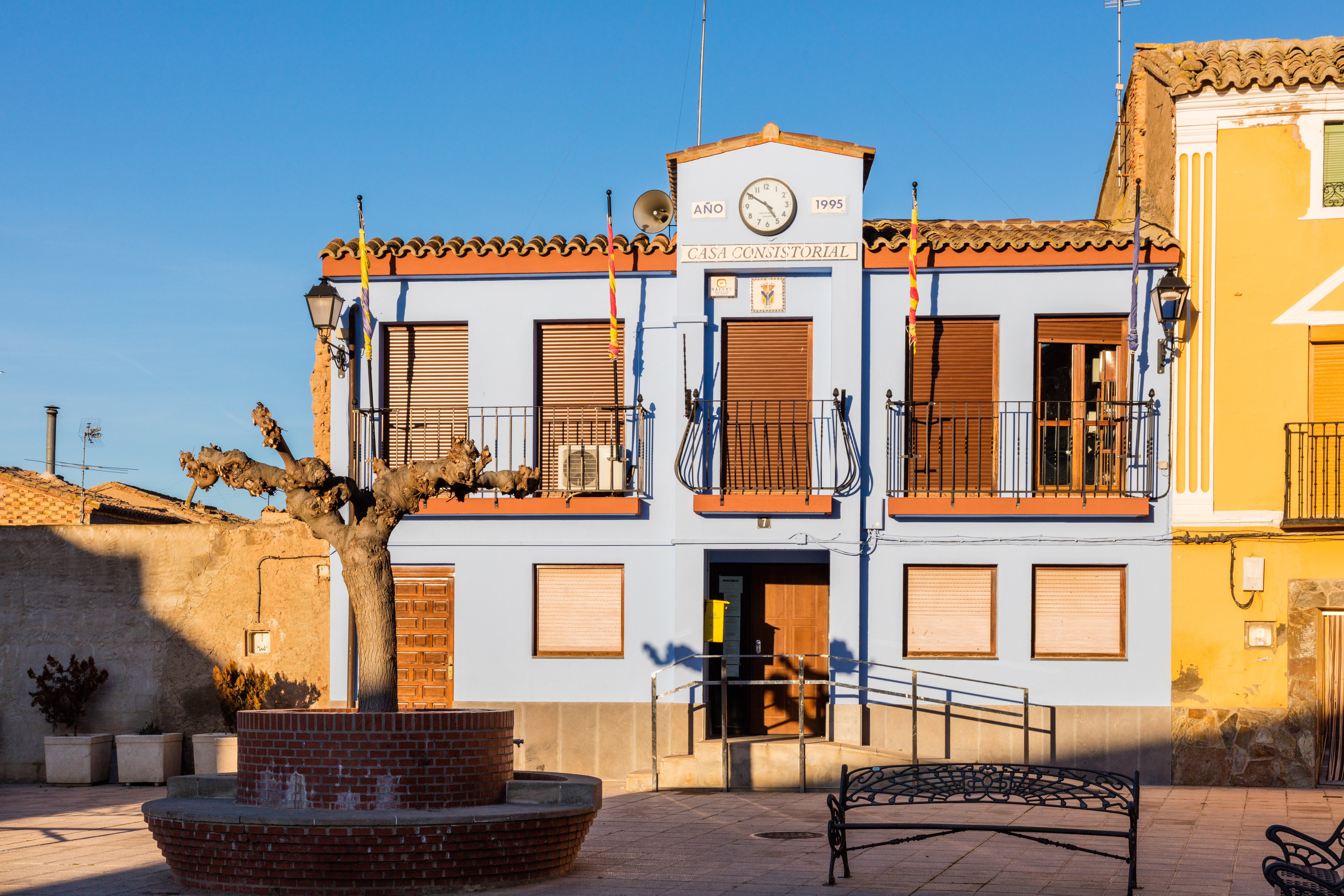 Town hall, Bárboles, Zaragoza, Spain